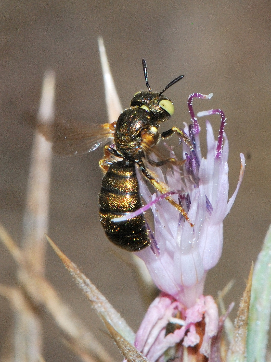 Female Ceratina bifida foraging on Carthamus tenuis, Mount Carmel, Israel, August 14, 2010.